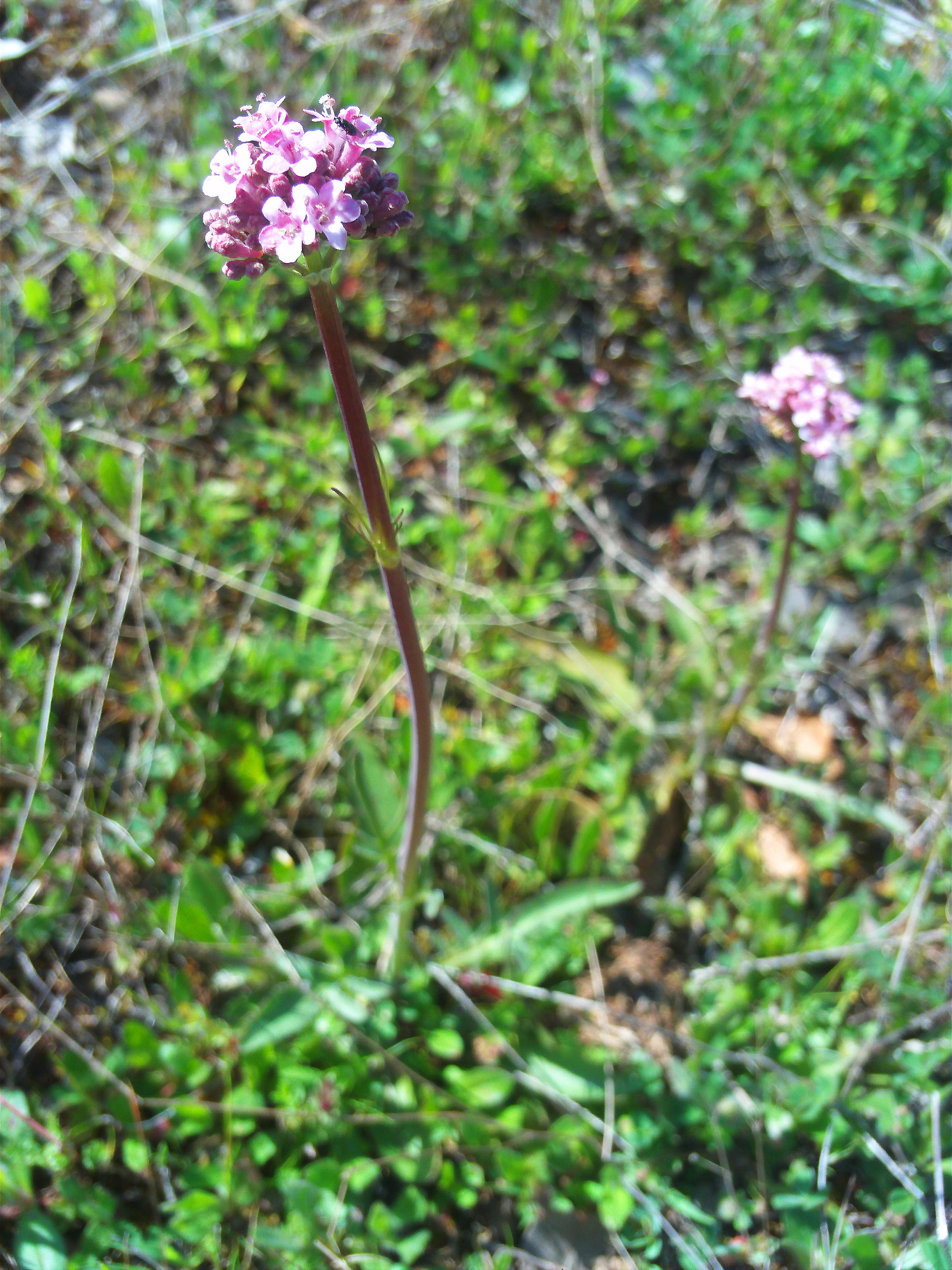 Valeriana tuberosa flowers, Dehesa Boyal de Puertollano, Spain